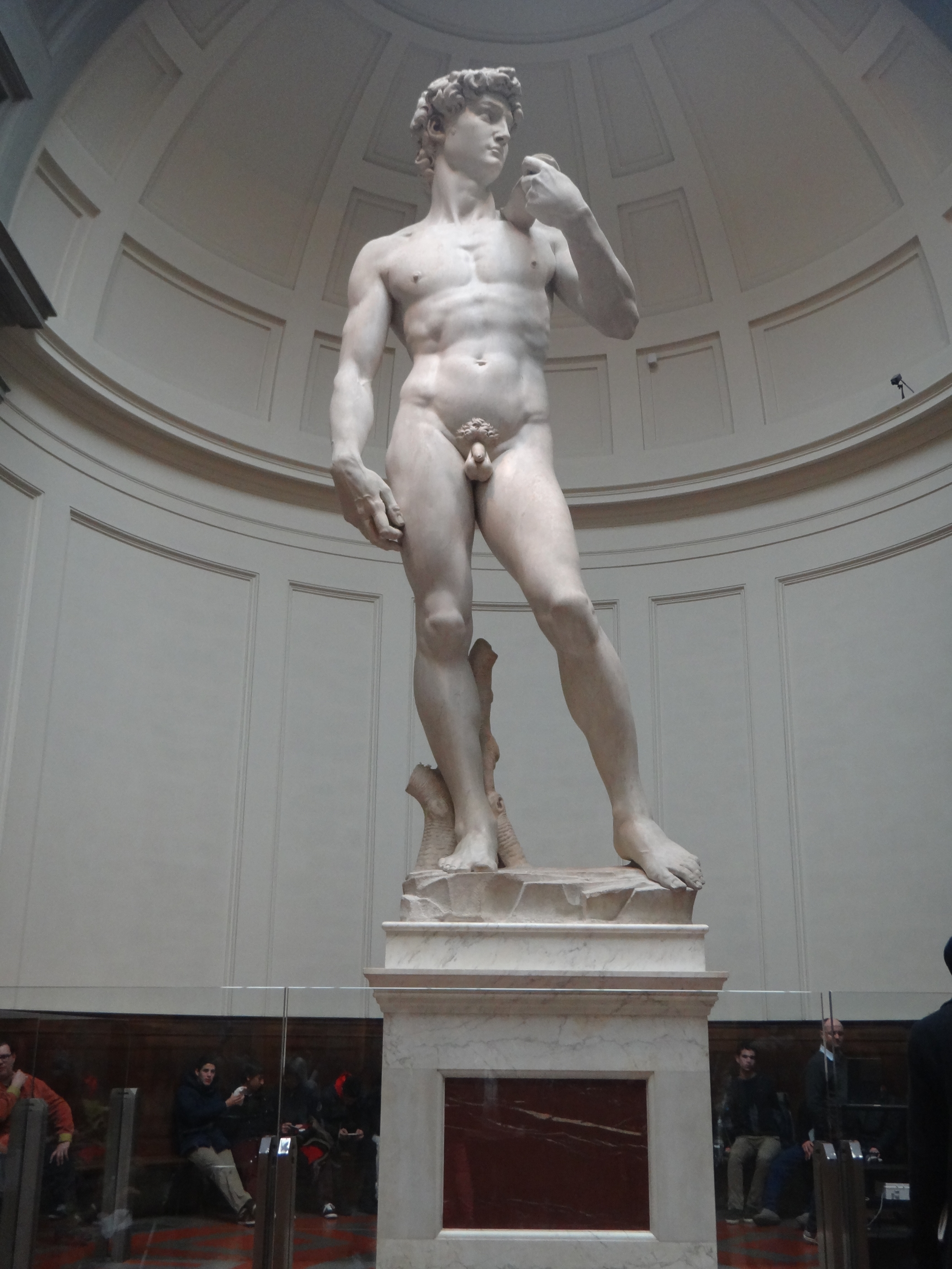 Michelangelo's statue David in Galleria dell'Accademia, Florence.